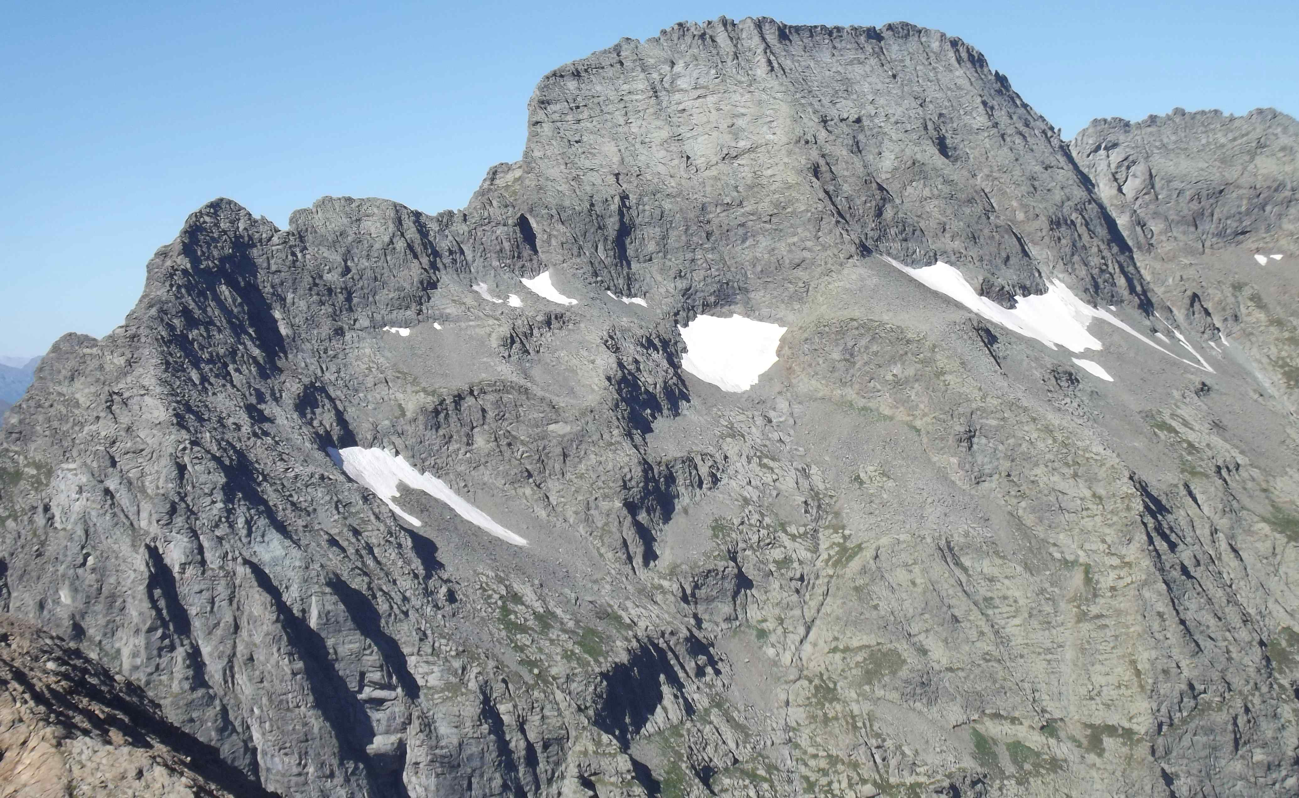 Torre d'Ovarda (Graian Alps, TO, Italy) as seen from Cima Chiavesso